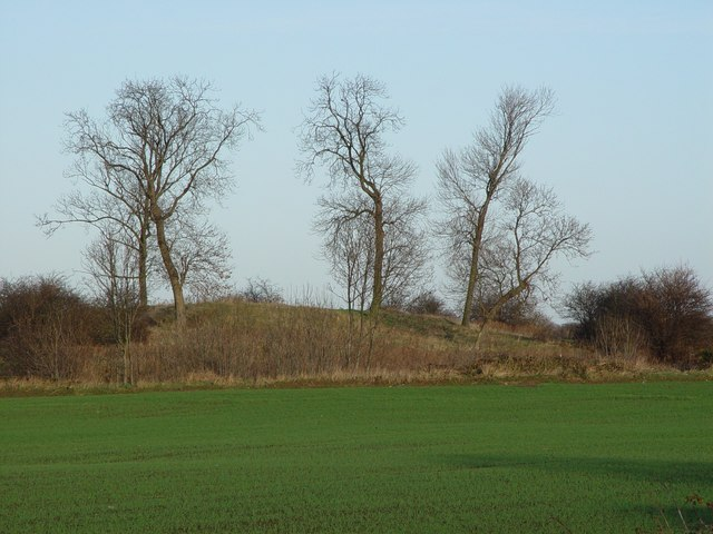 Castle Hill, Wawne, East Riding of Yorkshire, England.Only the earthworks remain of Swine Castle. It was built by Sir John Saher in the late 12thC. No stonework remains (stolen long ago) but brick foundations have been revealed. The earthworks represent a much mutilated oval platform, 100m long x 70m wide surrounded by a ditch with a counterscarp bank on the north & east sides.